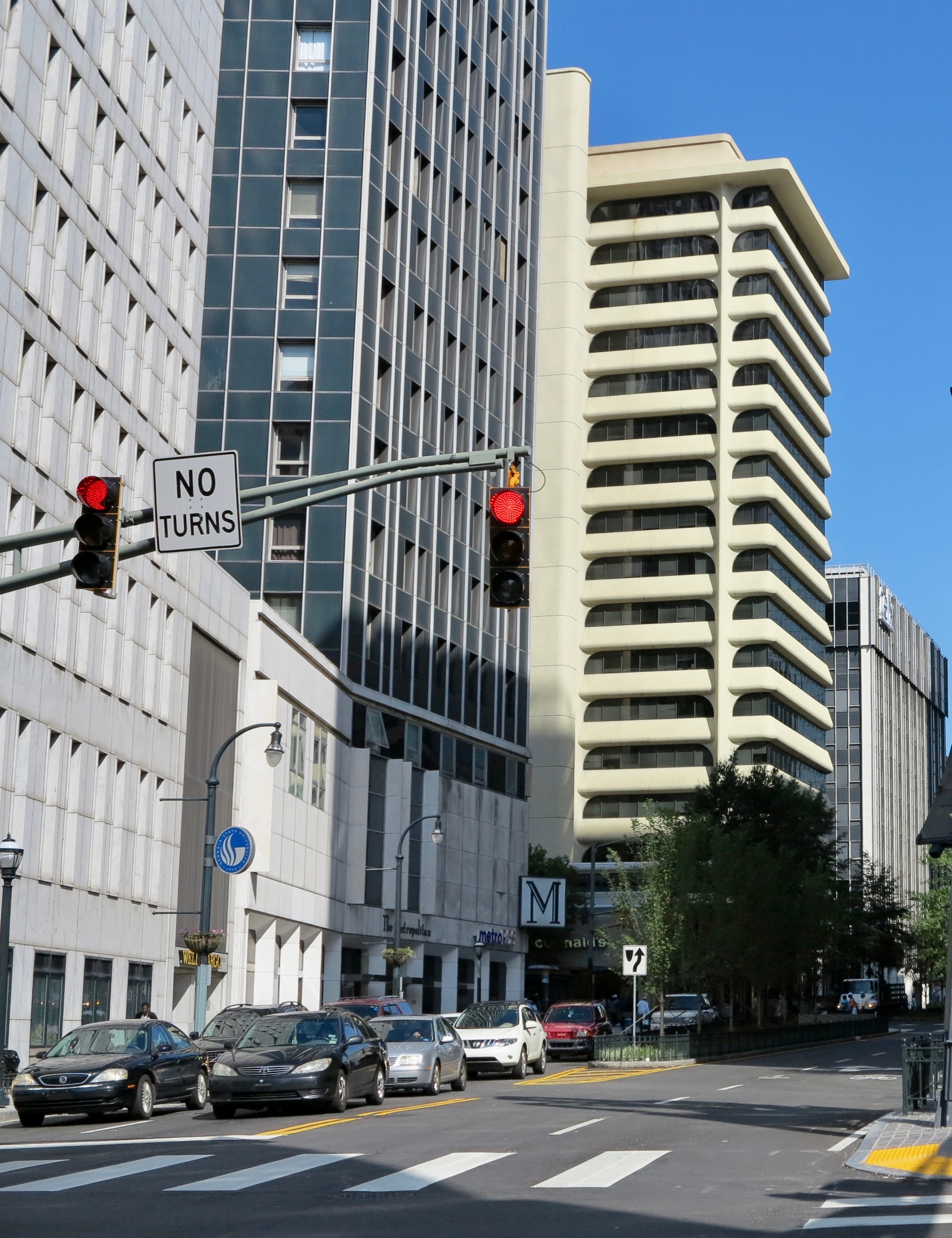 Site of first Atlanta artesian well and first mayoral election.